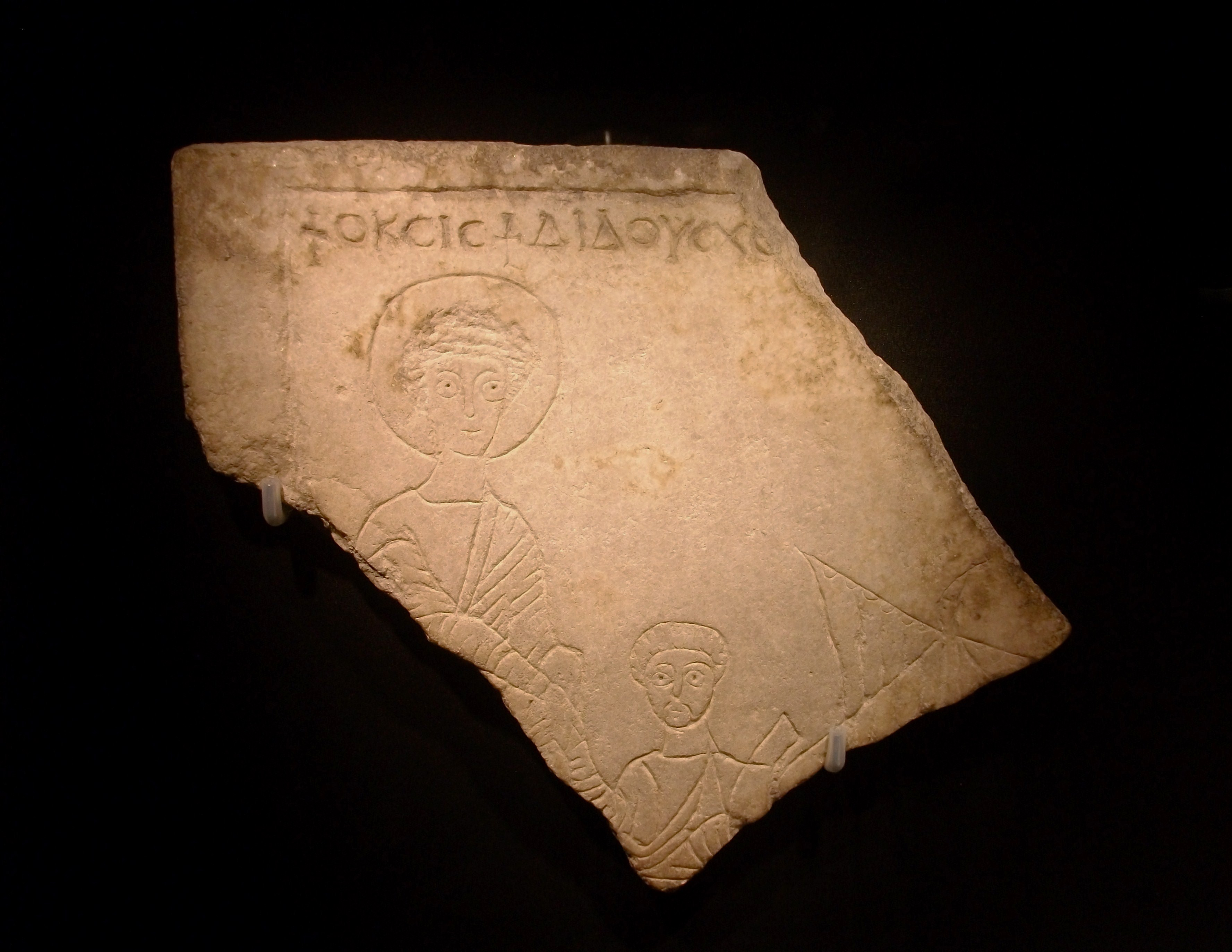 Fragment of relief decoration on a stone slab with the scene of Peter the Apostle walking on water, Byzantinum, Chersonesus. Crime, 5th century, marble. Ermitage.